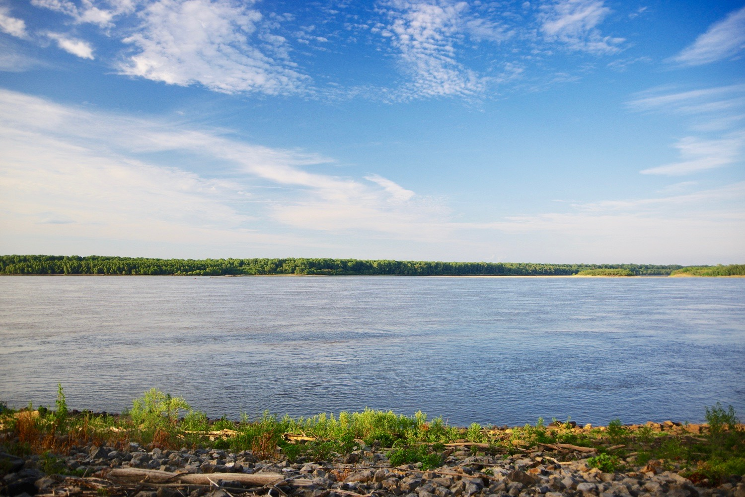 The Mississippi River, viewed from Caruthersville, Missouri, United States. The opposite shore is part of Lake County, Tennessee.